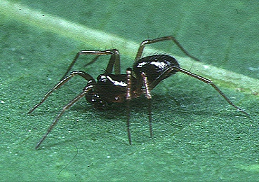 male Gongylidioides onoi from Okinawa.